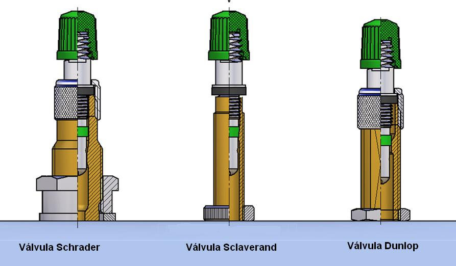 Cut and index on a image from German wikipedia released under Public Domain by the owner of rights ALLIGATOR Ventilfabrik GmbH